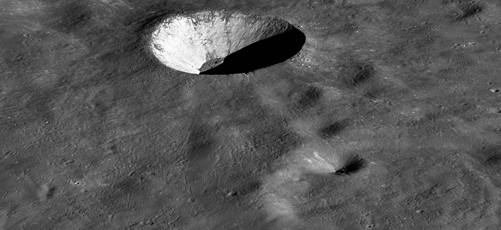 Low resolution LROC NAC oblique of Dugan J (~13 km in diameter) [NASA/GSFC/Arizona State University].